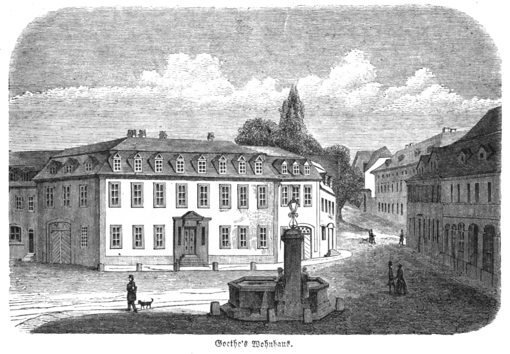 caption: "Goethe’s Wohnhaus"